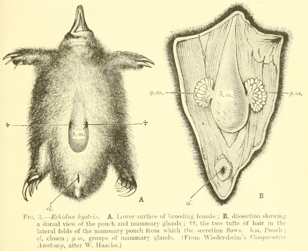 Sketch of a echidna female reproductive organs